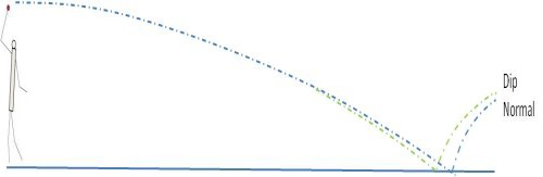 Cricket ball "dip", when a spinner is bowling